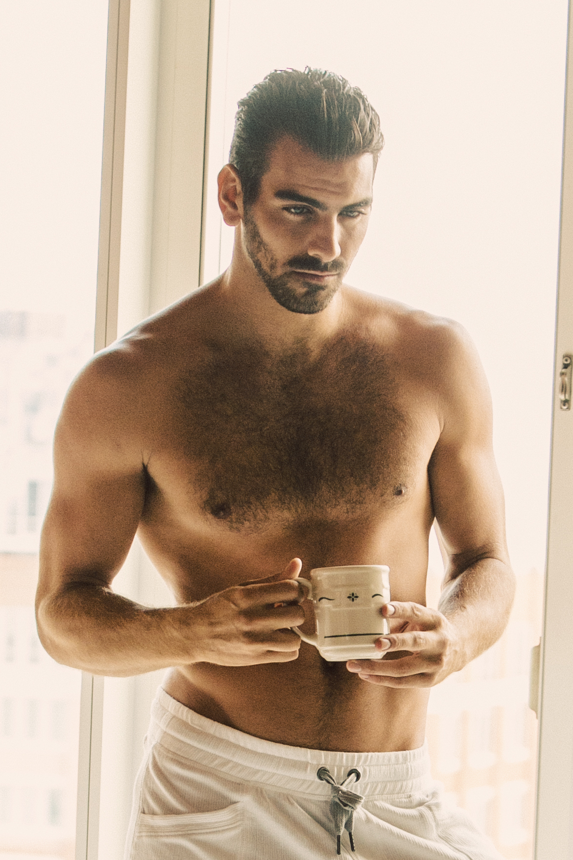 Nyle DiMarco - winner of America's Next Top Model final season